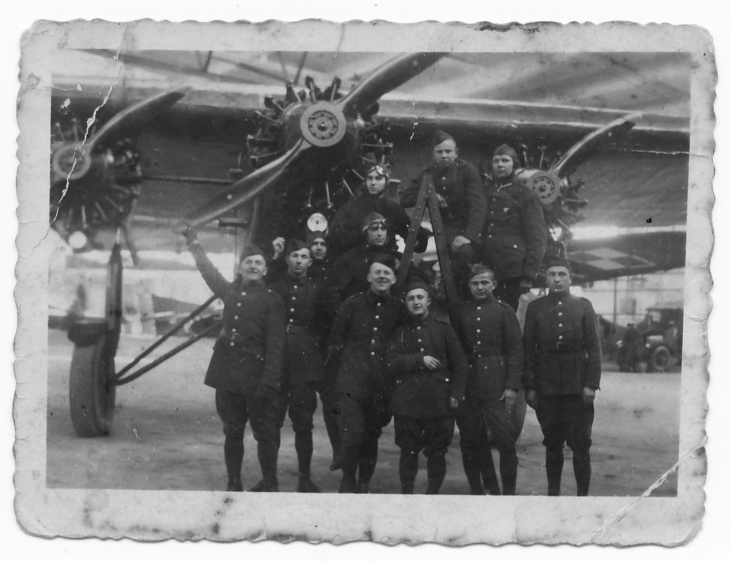 This is a picture of my grandfather and his crew members with the Fokker F VII/3m